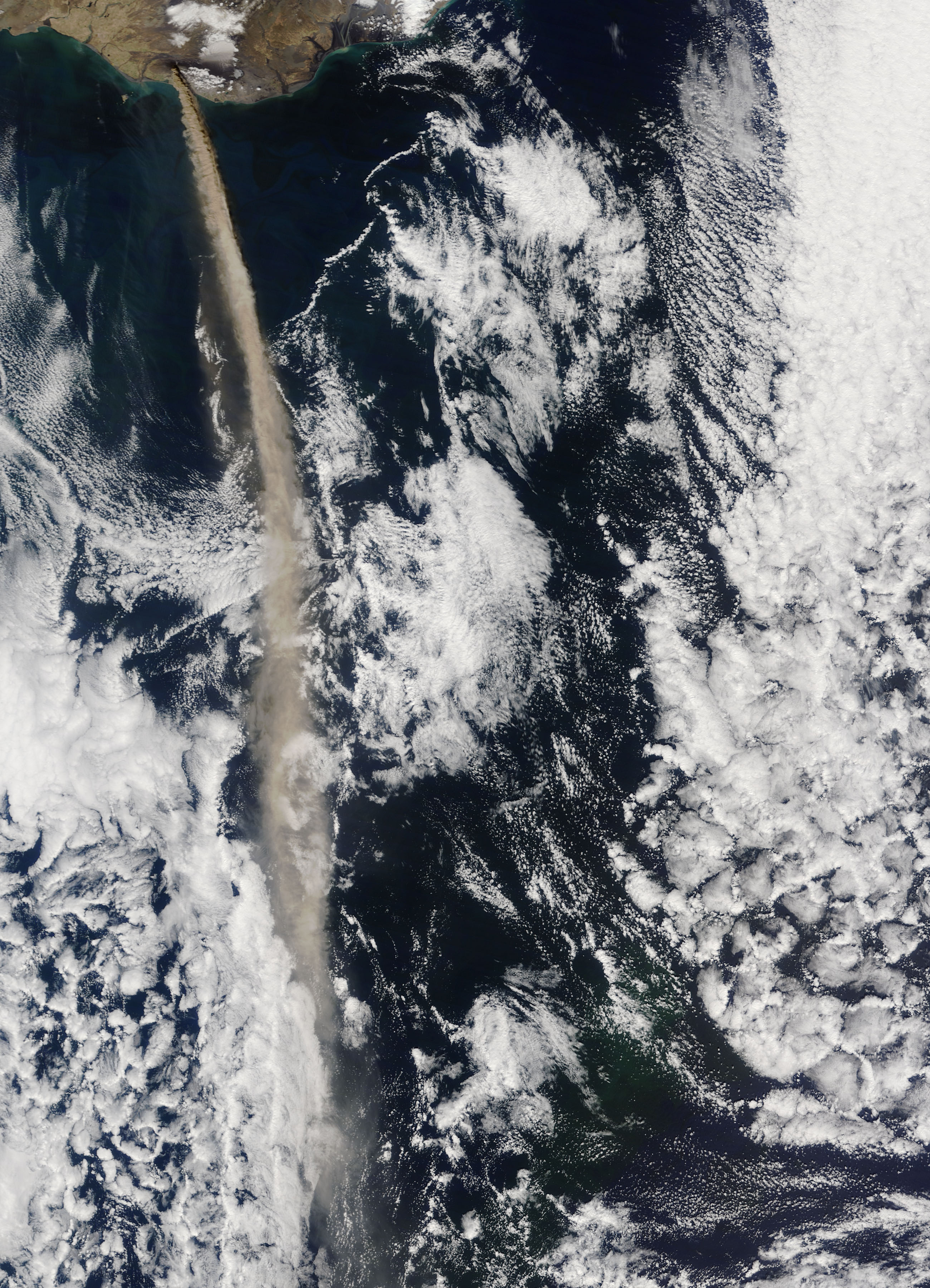 Iceland’s Eyjafjallajökull Volcano continues to erupt a thick plume of ash. On May 11, 2010, the ash was streaming almost directly south, visibly extending at least 860 kilometers (530 miles) from Eyjafjallajökull. According to the London Volcanic Ash Advisory Center, the ash reached altitudes of 14,000 to 17,000 feet (4,300 to 5,200 meters). On May 10th, the Icelandic Met Office reported continuous ash fall south of the volcano, with as depths reaching 2-3 millimeters (roughly 0.1 inches). This natural-color image was acquired by the Moderate Resolution Imaging Spectroradiometer aboard NASA’s Terra satellite at 12:15 p.m. local time.